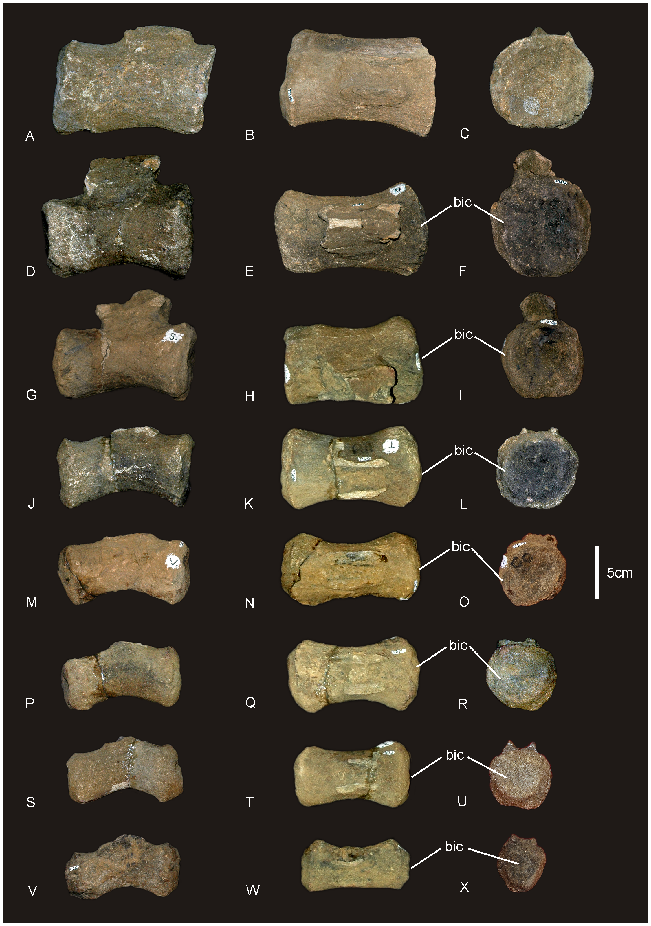 Middle and posterior caudal vertebrae of Wintonotitan wattsi. Middle caudal vertebra in lateral (A), dorsal (B) and anterior (C). Posterior caudal vertebrae in lateral (D, G, H, J, M, P, S, V), dorsal (E, H, K, N, Q, T, W) and anterior (F, I, L, O, R, U, X) views. Abbreviations: bic, incipient biconvexity.